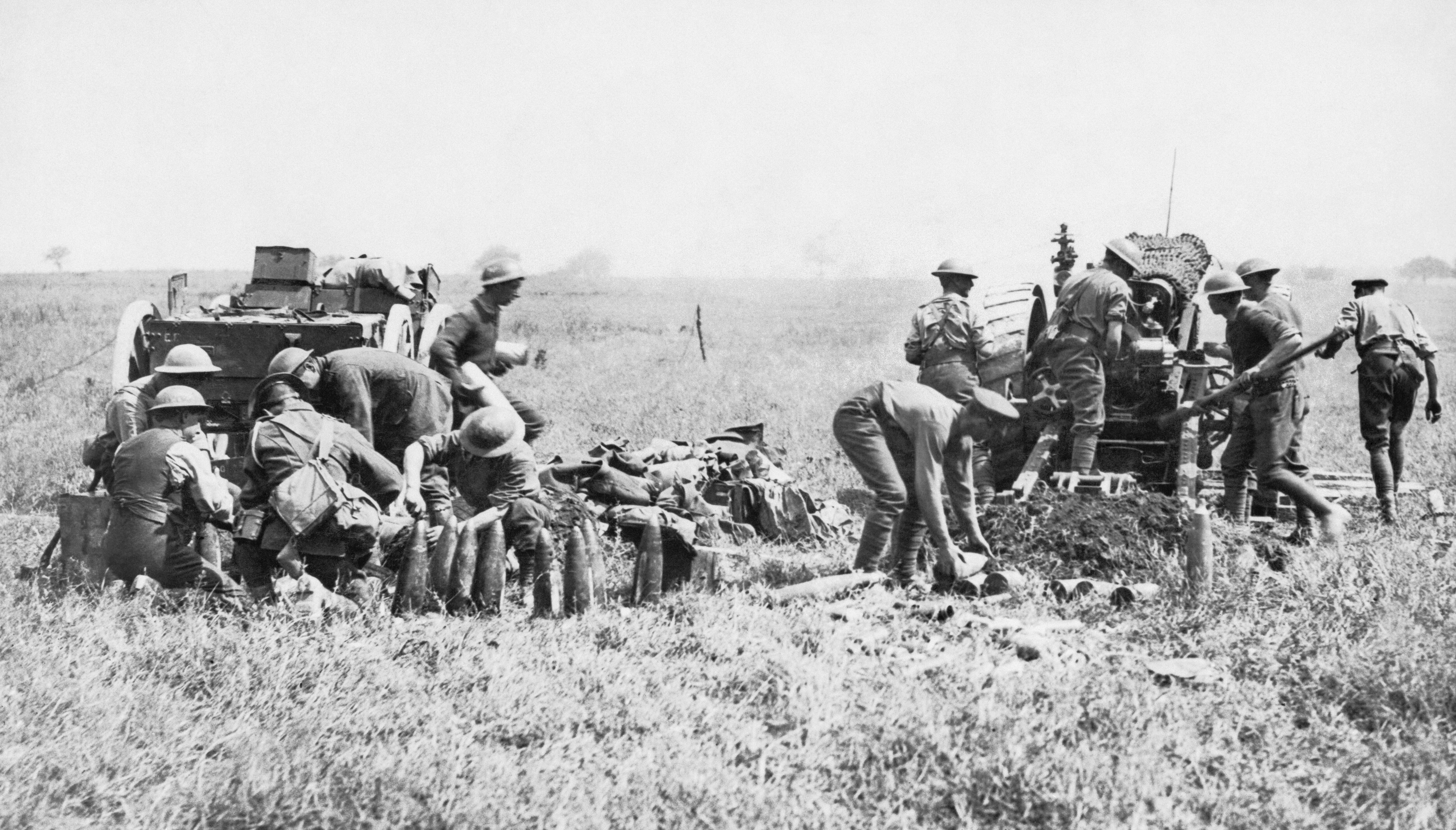 IWM description : "60 pounder guns in action during the Battle of Amiens in August 1918."